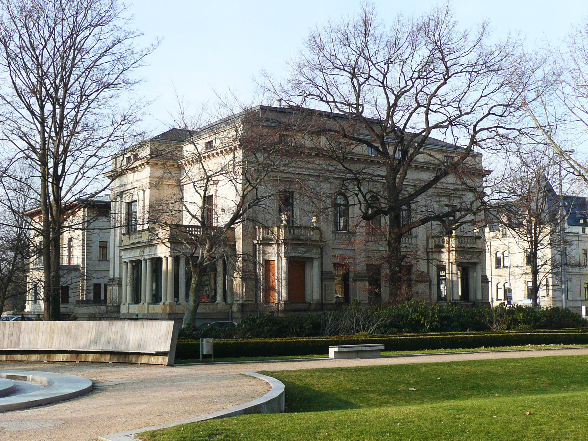 This image shows the Saxon Academy of Sciences in Leipzig in Saxony, Germany.